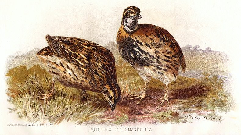 Coturnix coromandeliea = Coturnix coromandelica (Rain Quail)